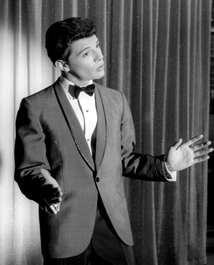 Photo of singer Frankie Avalon performing.